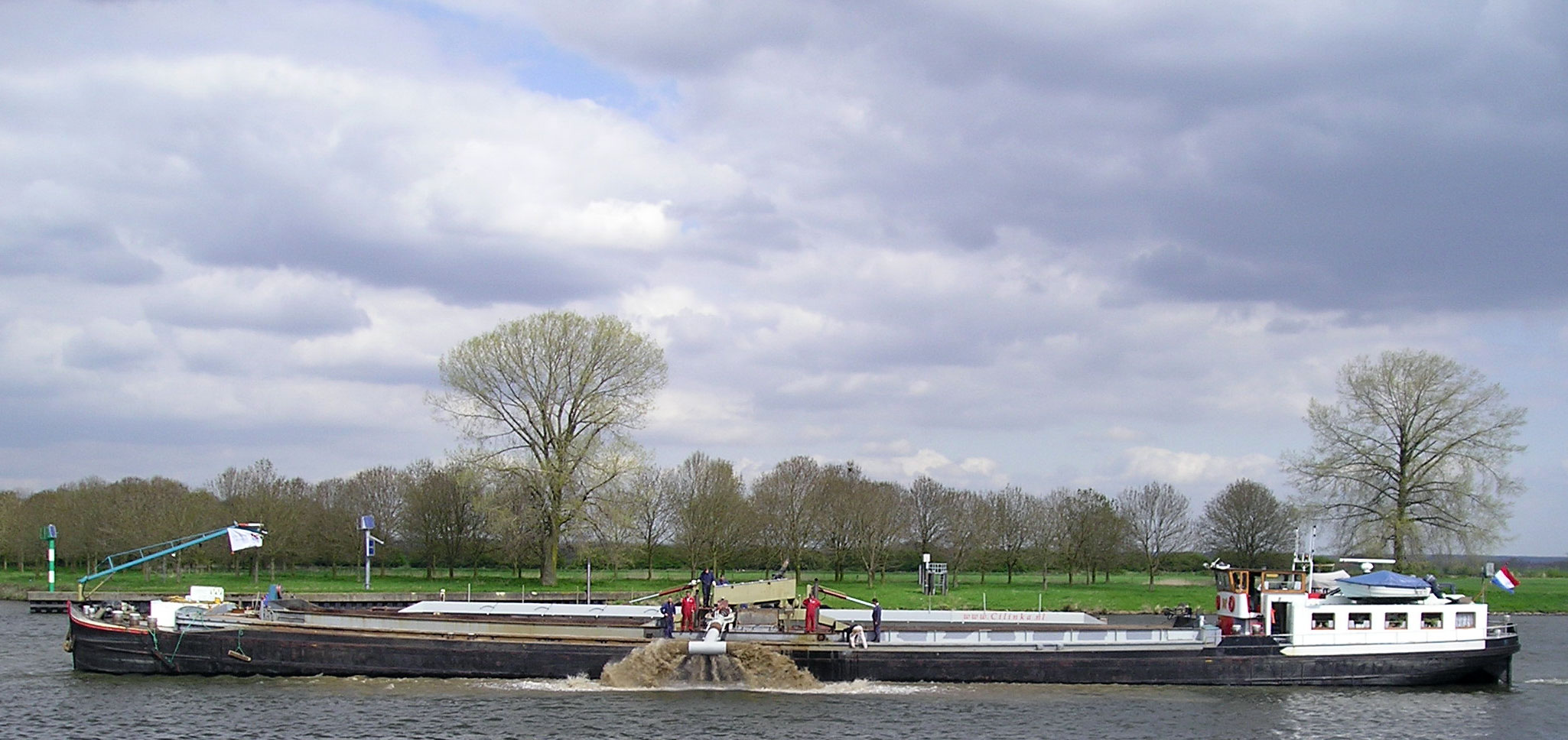 Ship Cilinka at Shipyard Grave, The Netherlands